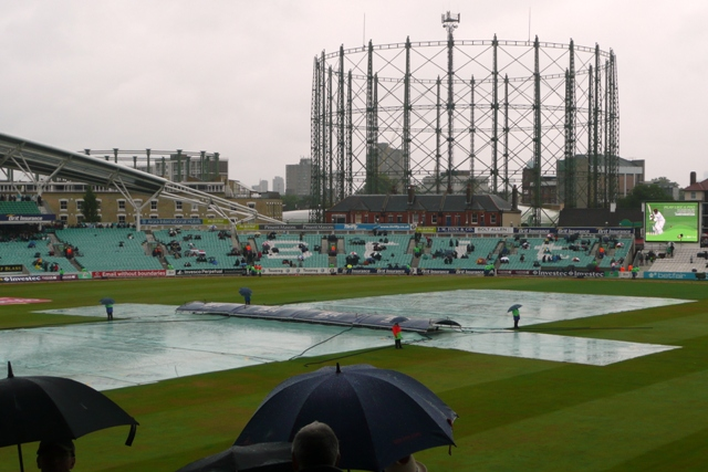 The Oval test match. England v South Africa, day 3, 13:26. Rain stopped play, as it did for the rest of the day. Compare less than an hour earlier 915211. Four security guards flank the square; a bit pointless really. The screen is showing highlights of a sunnier day, whilst the venerable gas holder that dominates The Oval stands empty behind.